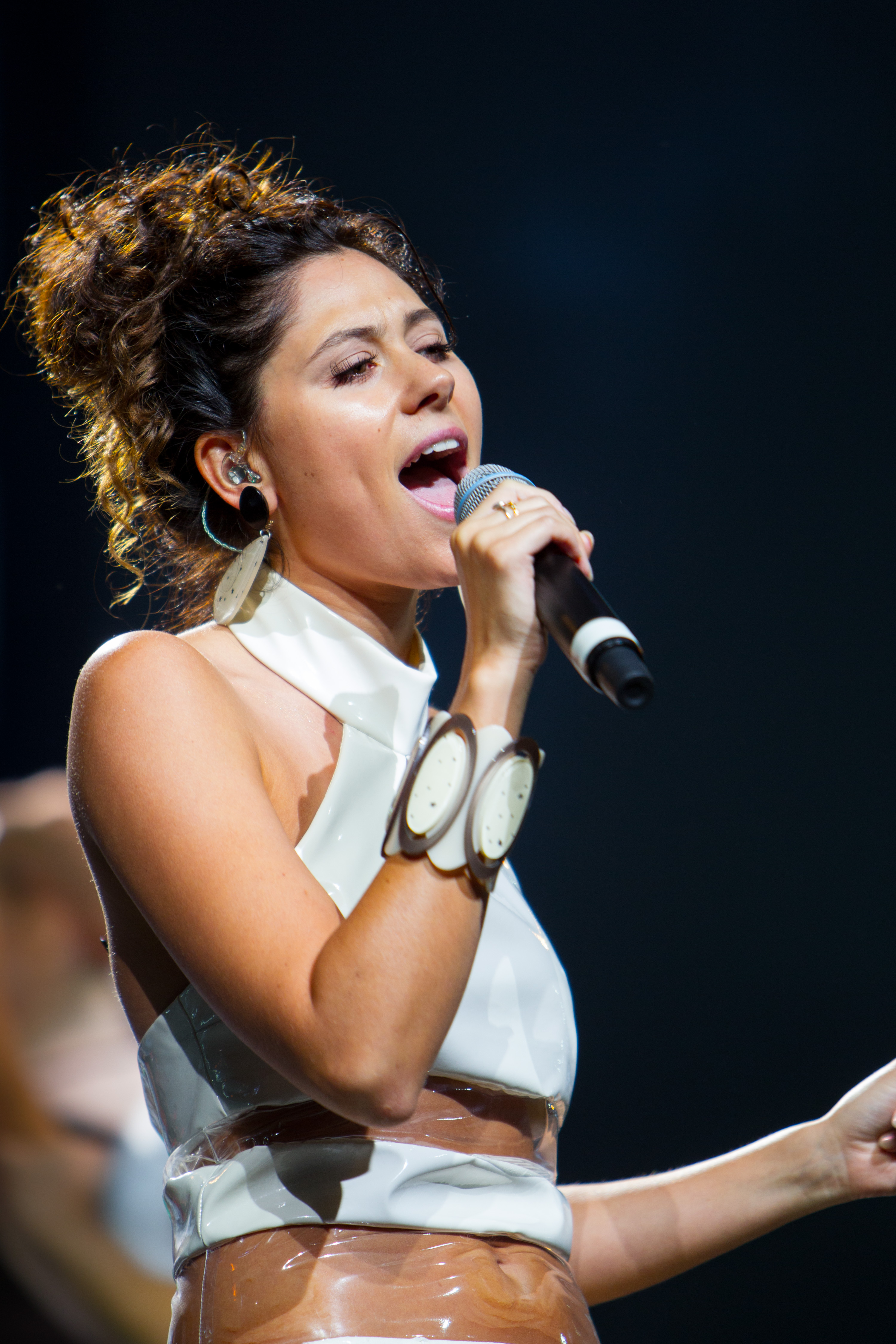 Jaguar XE World Premier at Earls Court London